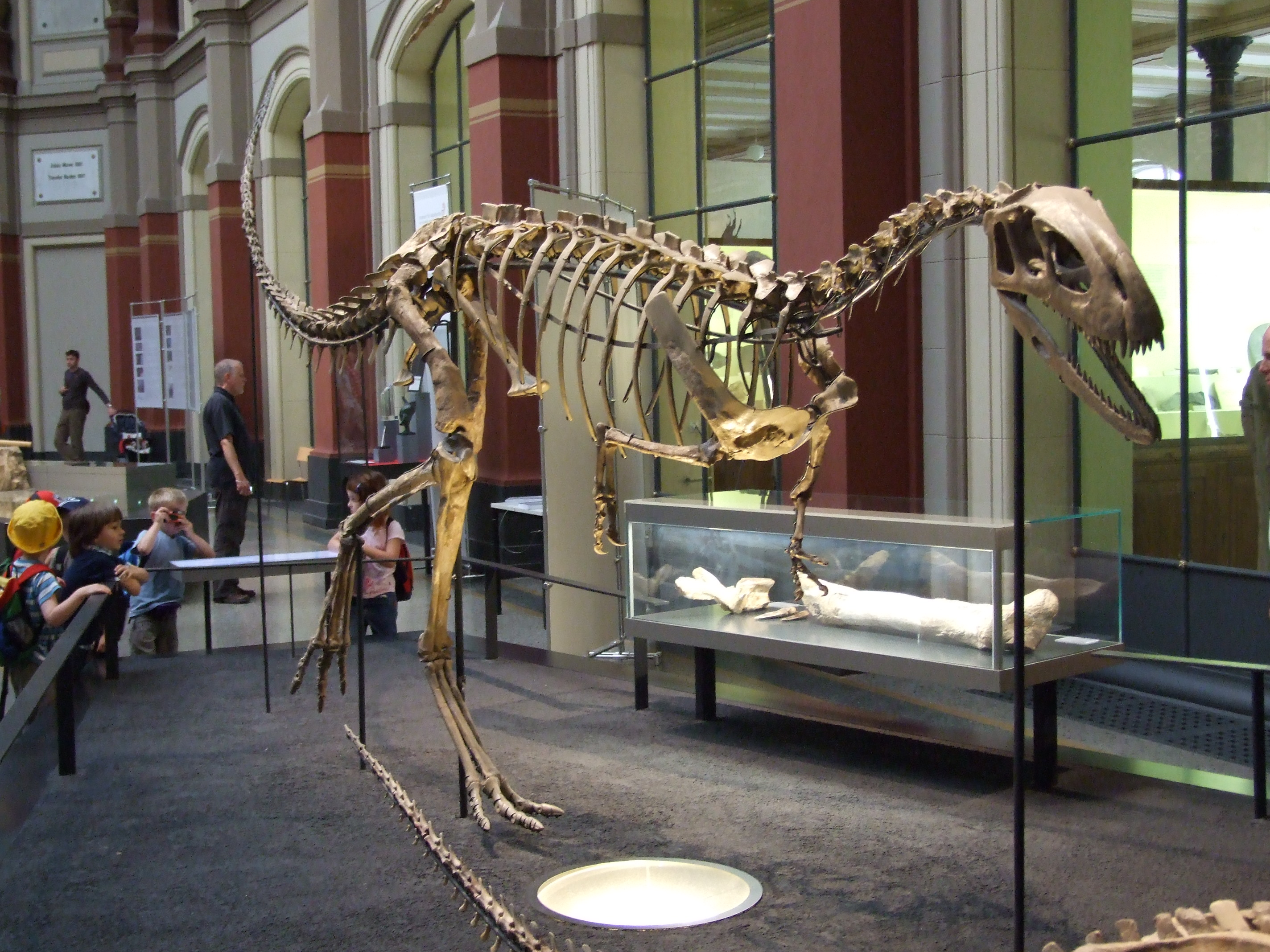 Elaphrosaurus skeleton, Museum für Naturkunde in Berlinhelp